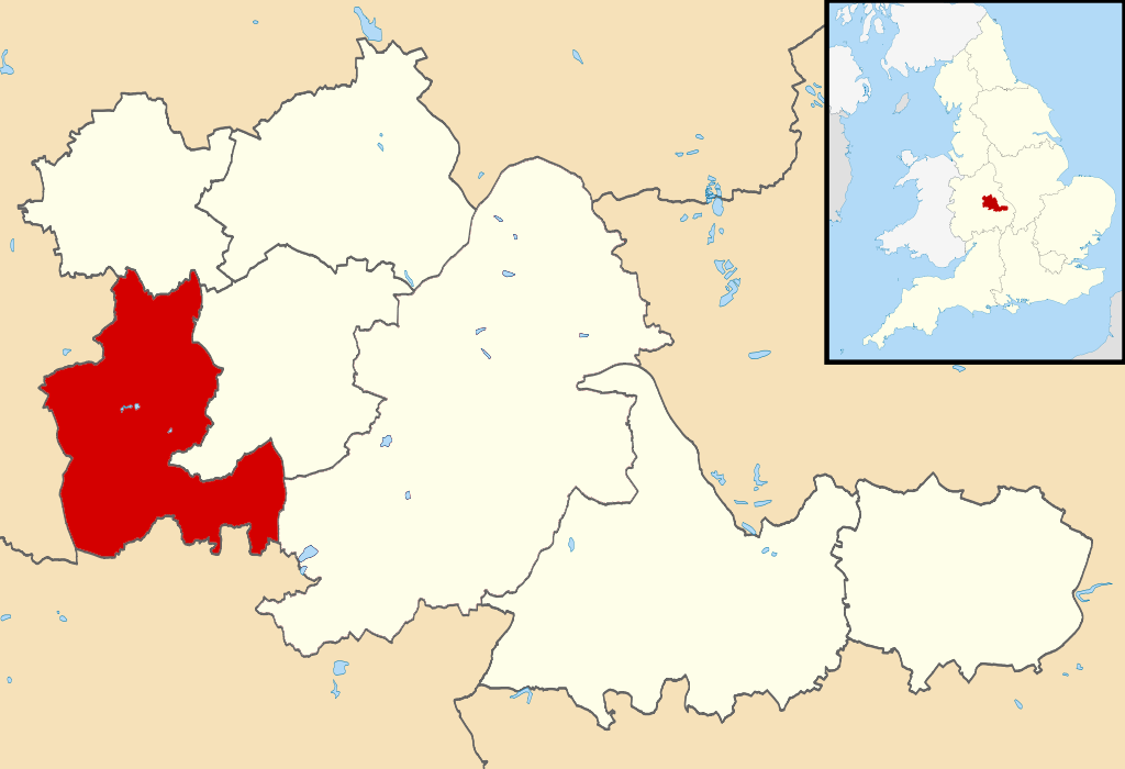 Location of Dudley Metropolitan Borough highlighted within the West Midlands, England.